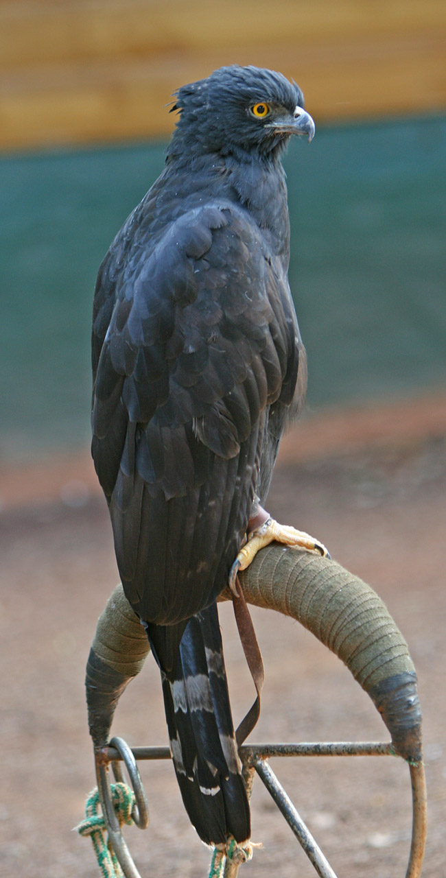 Black Hawk-Eagle in rehabilitaiton, Puerto Iguazu, Argentina